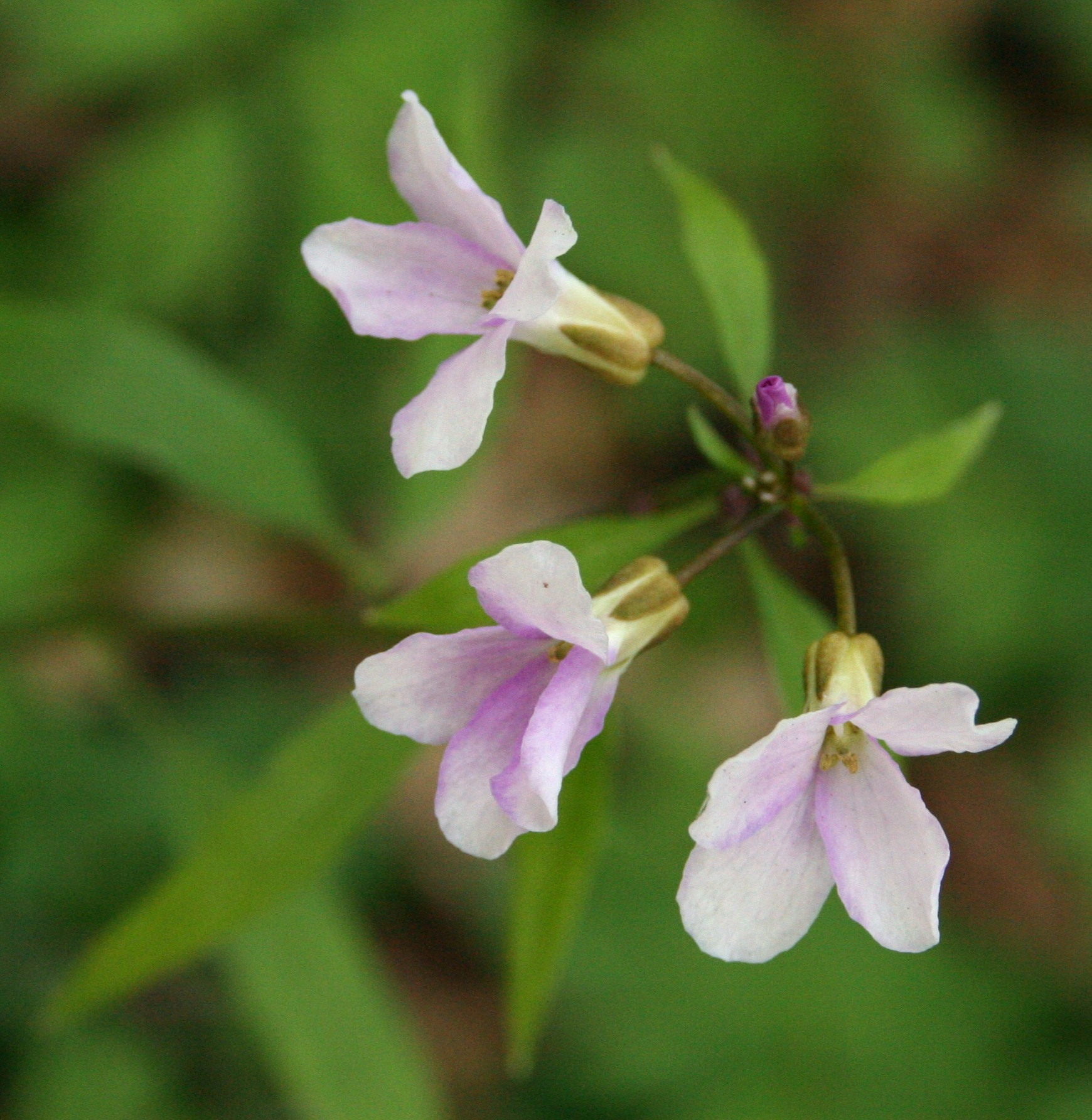 Dentaria bulbifera